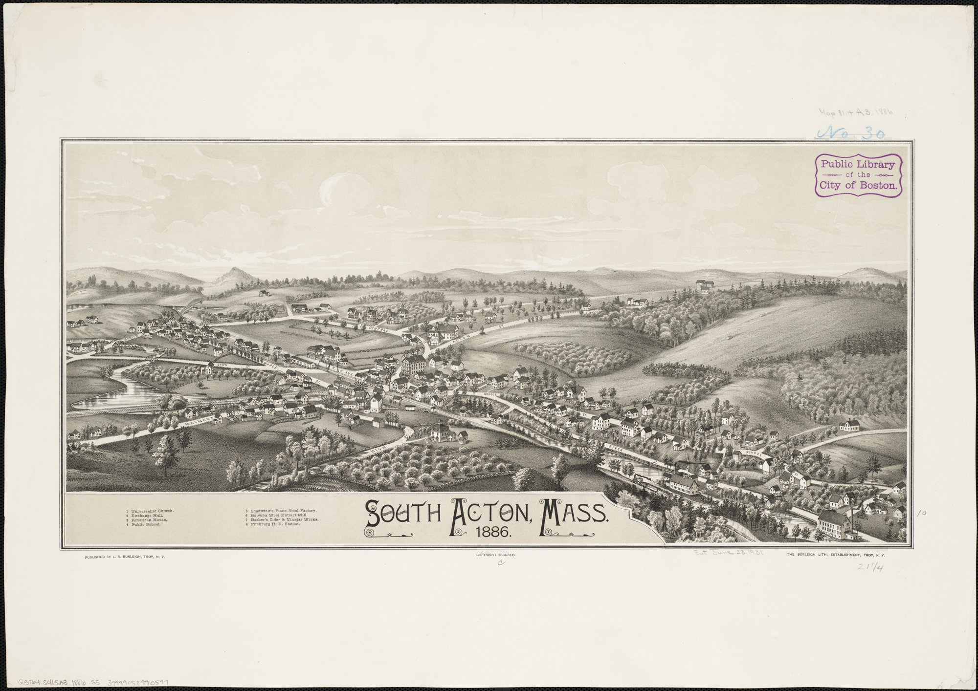 Zoom into this map at . Publisher: L.R. Burleigh Date: [1886] Location: South Acton (Mass.) Scale: Not drawn to scale. Call Number: G3764.S415A3 1886.S6